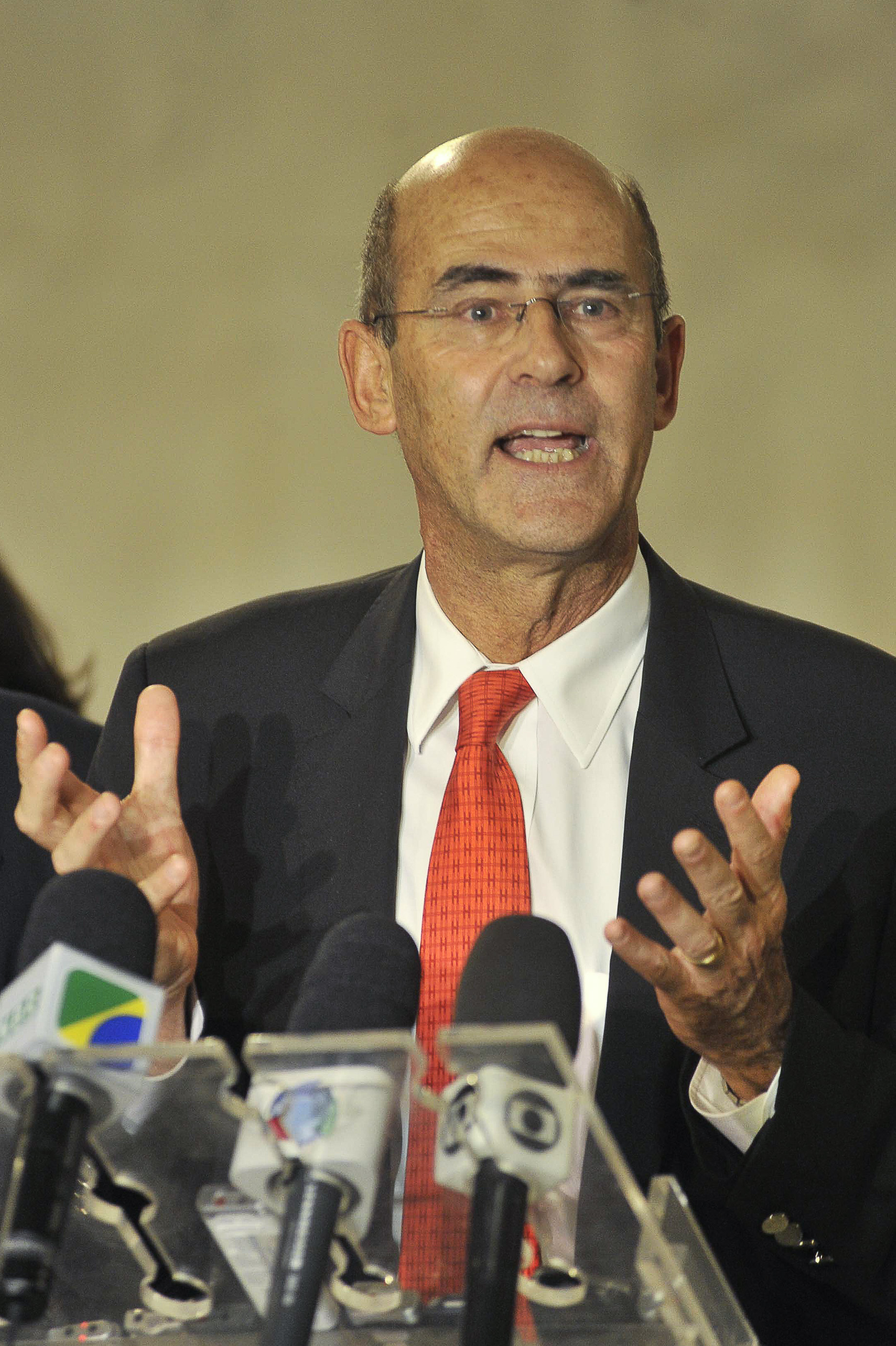 In Brazil, the president of Alstom, Patrick Kron, talks to the press after meeting with Brazilian President Dilma Rousseff.